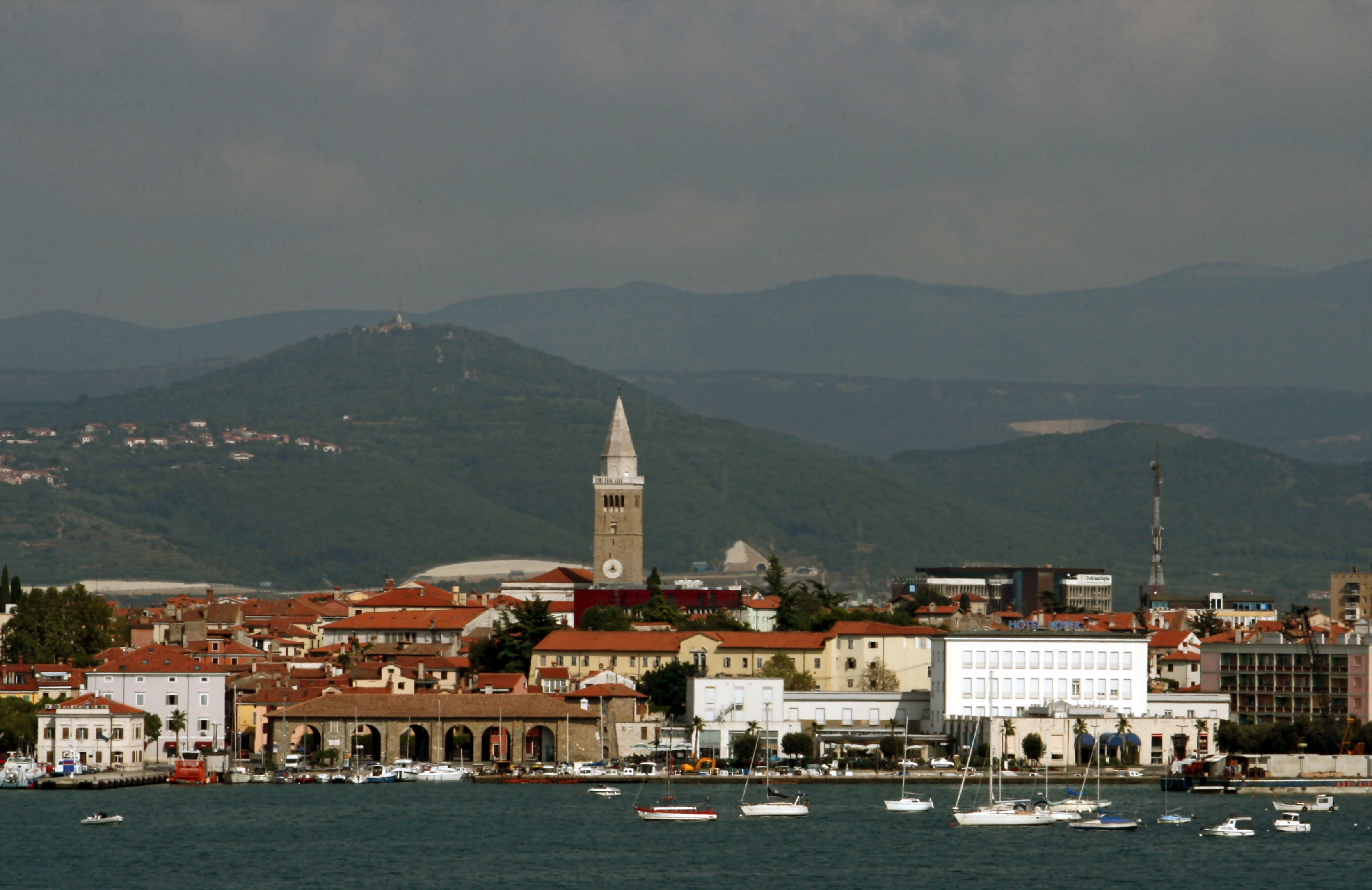 View of Koper from Zusterna